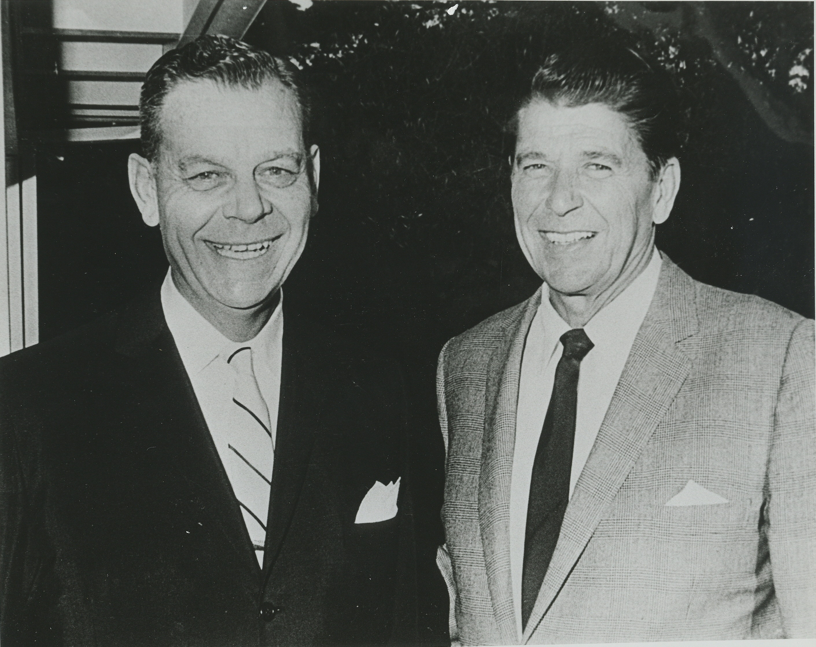 Picture of John T. Rickard and President Ronald Reagan